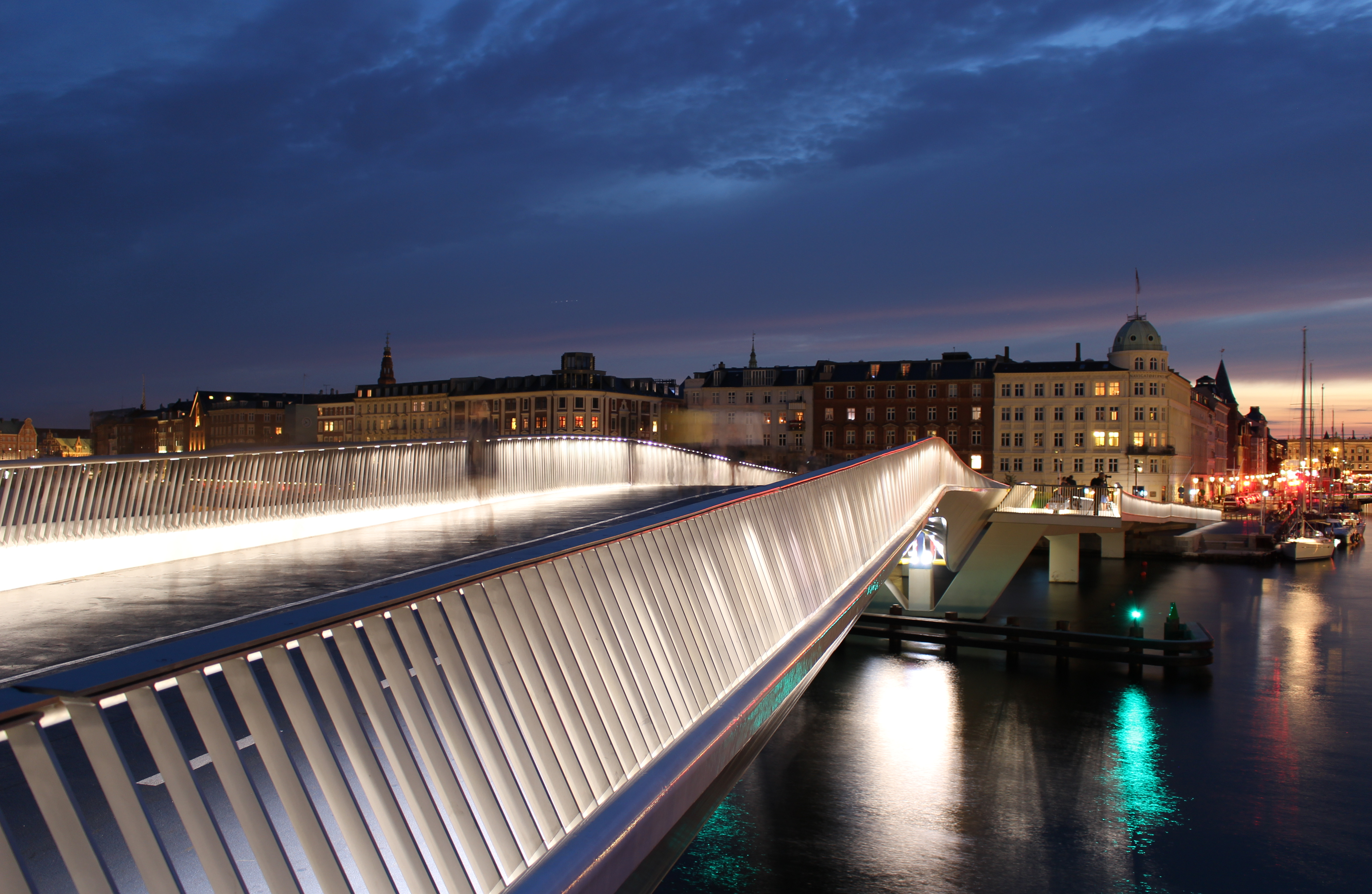 Bridge in Copenhagen Harbor by night with Nyhavn in the background.